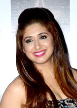 Dorabjee and Dsena at Pride Gallantry Awards by Maharashtra Police